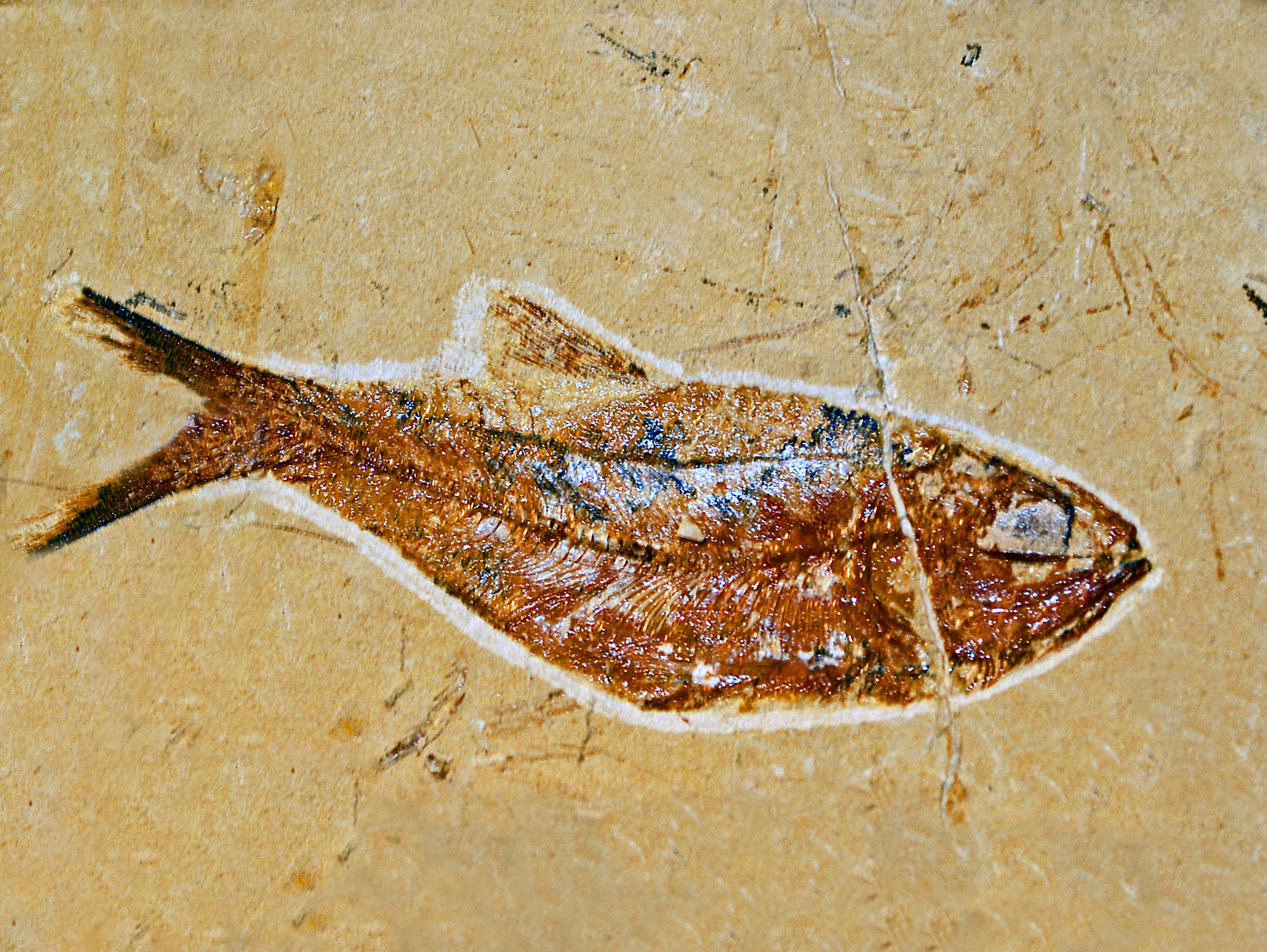 Fossil of Armigatus brevissimus from Lebanon